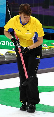 Cathrine Lindahl; 2010 Vancouver Olympic Games - Women's Curling - Preliminary from Vancouver Olympic Centre